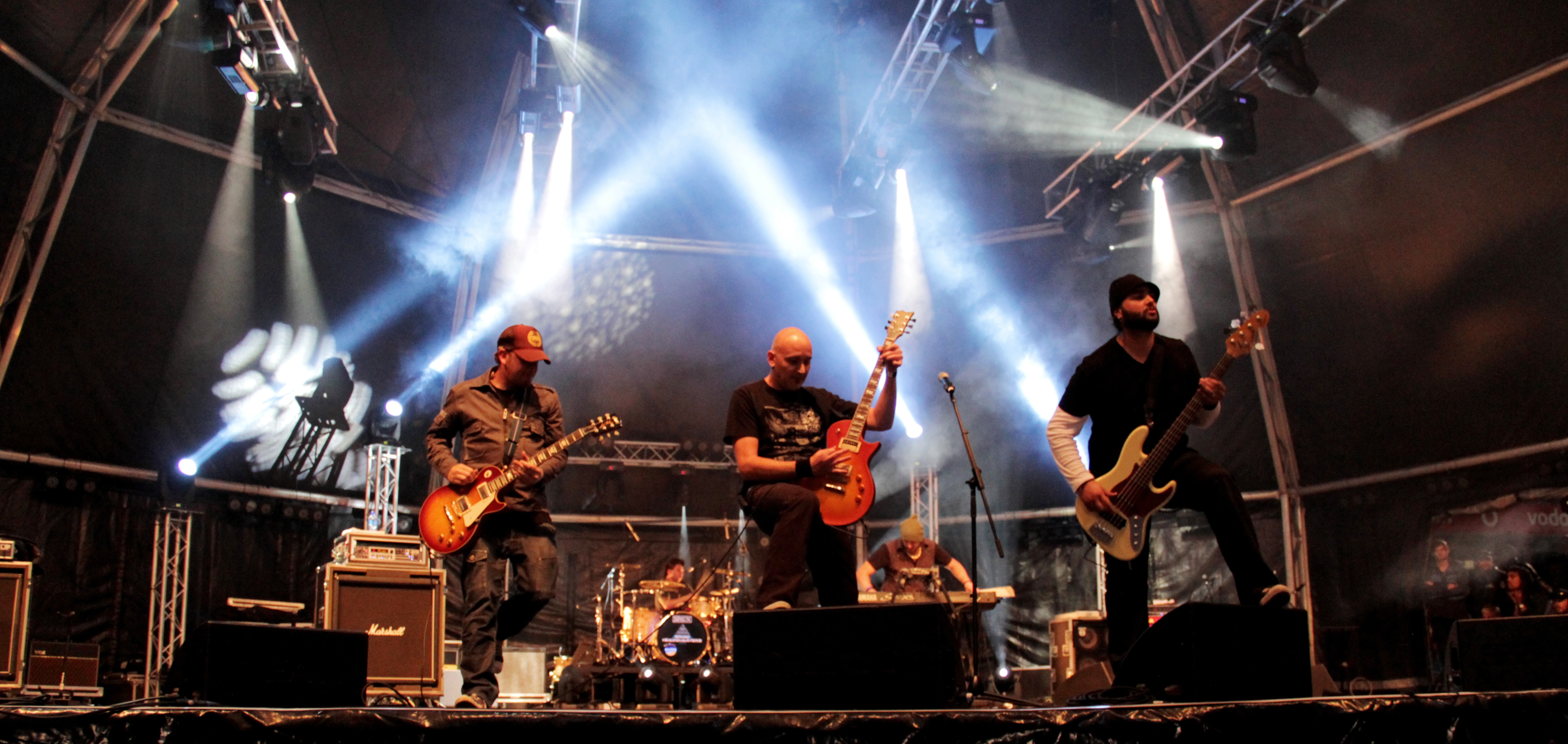 Prime Circle live on stage